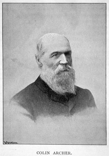 Portrait of Colin Archer